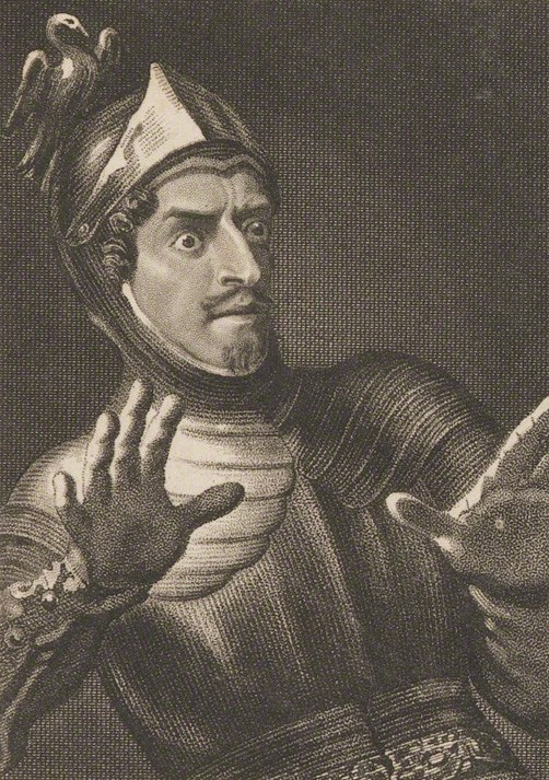 Portrait of Thomas Cobham (1786–1842), British actor, in character as Marmion.